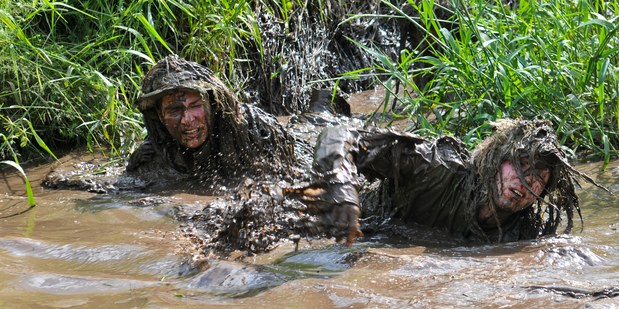 BAUMHOLDER, Germany – Soldiers with 170th Infantry Brigade Combat Team add natural camouflage to their ghillie suits during U.S. Army Sniper School training here June 6, 2012.